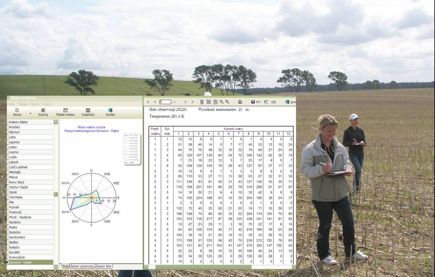 Wind rose for dispersion modeling of pollution (fragment)